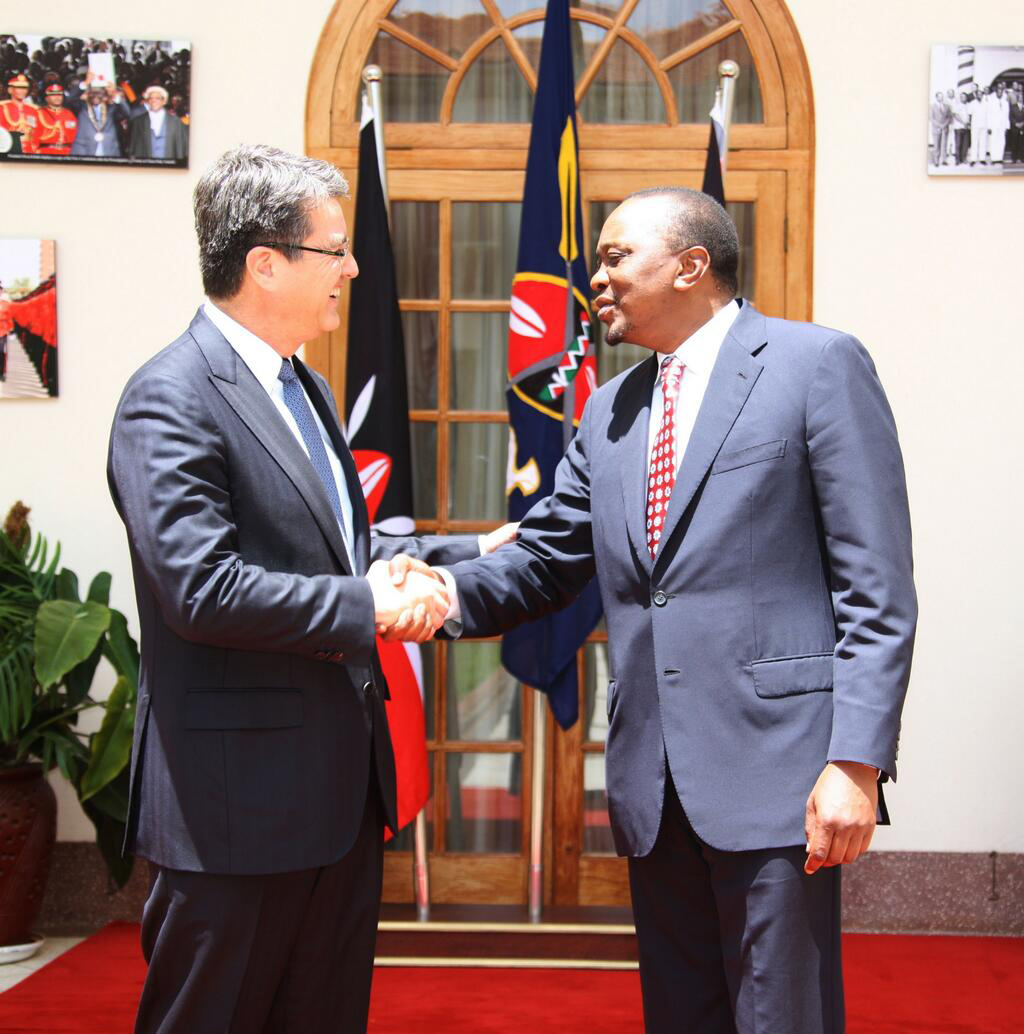 Director-General Roberto Azevêdo met with the President of Kenya, Uhuru Kenyatta, at the State House in Nairobi, Kenya.